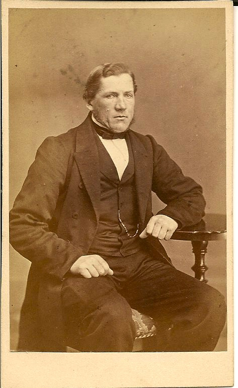 Swedish politician from late nineteenth century